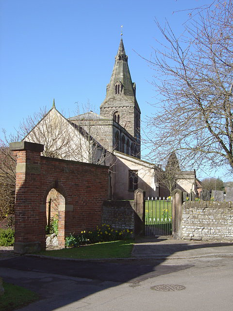 Gotham Church from the north east The parish church of St Lawrence was established in 1180, with a Norman nave and 13th century steeple. It no longer holds services every Sunday.